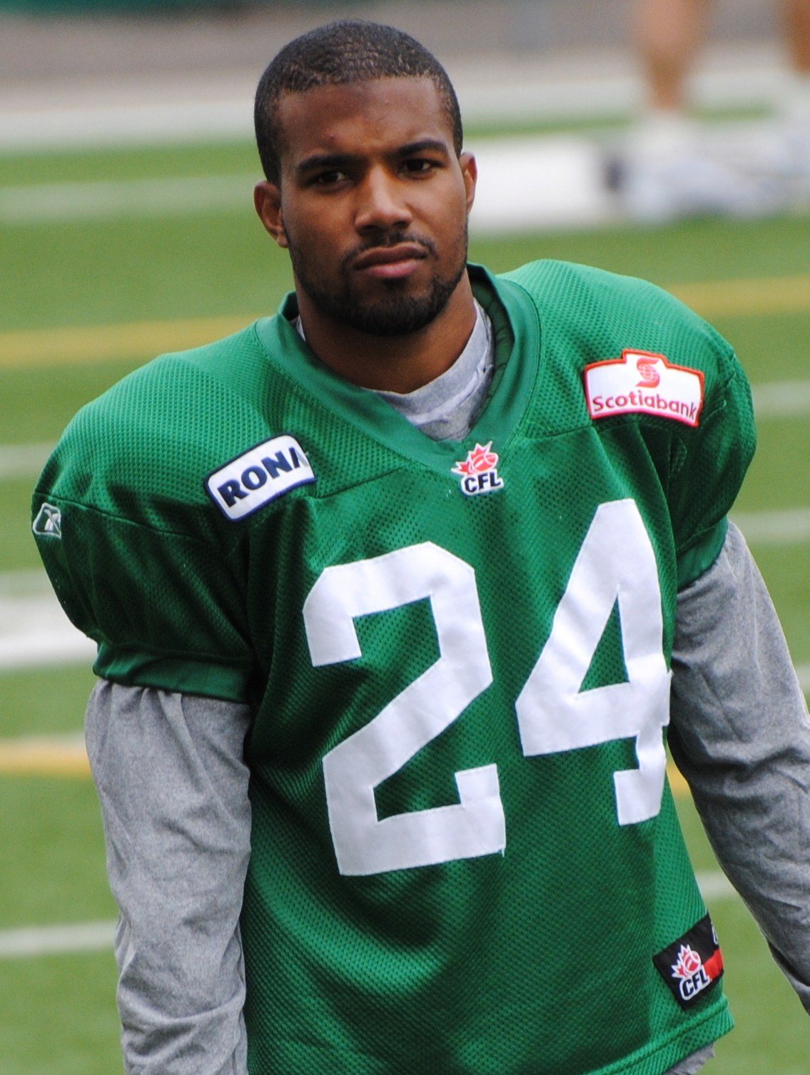 Tad Kornegay during a Saskatchewan Roughriders practice.